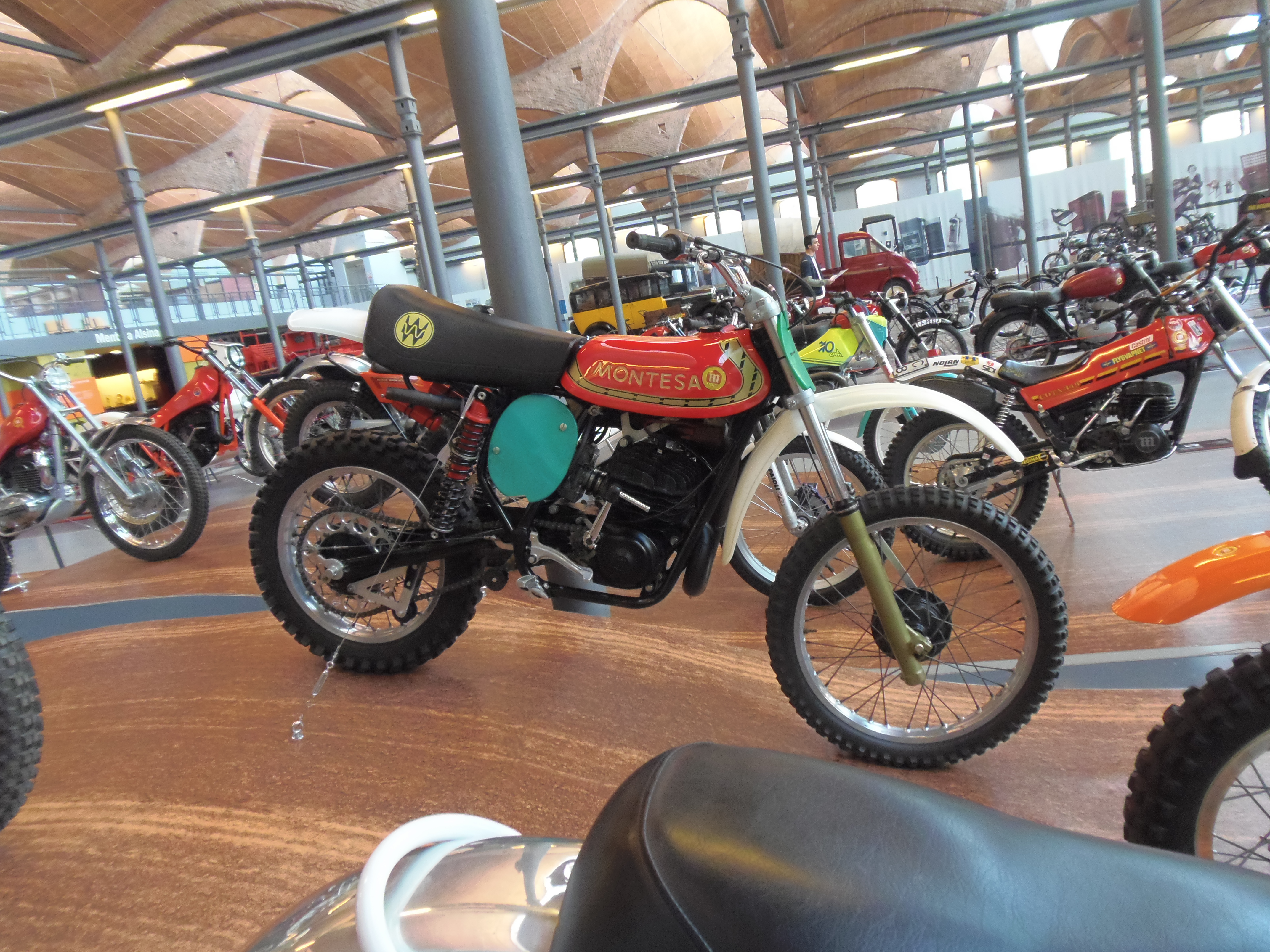 Montesa Cappra VB 250, 1978